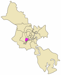 position of district 6 in an outline of the metropolitan area of HCMC (Ho Chi Minh City, Vietnam) - ISO code VN-F-HC. Keywords: map, outline, city, Ho Chi Minh City, HCMC, HCM, district 6, quan 6.